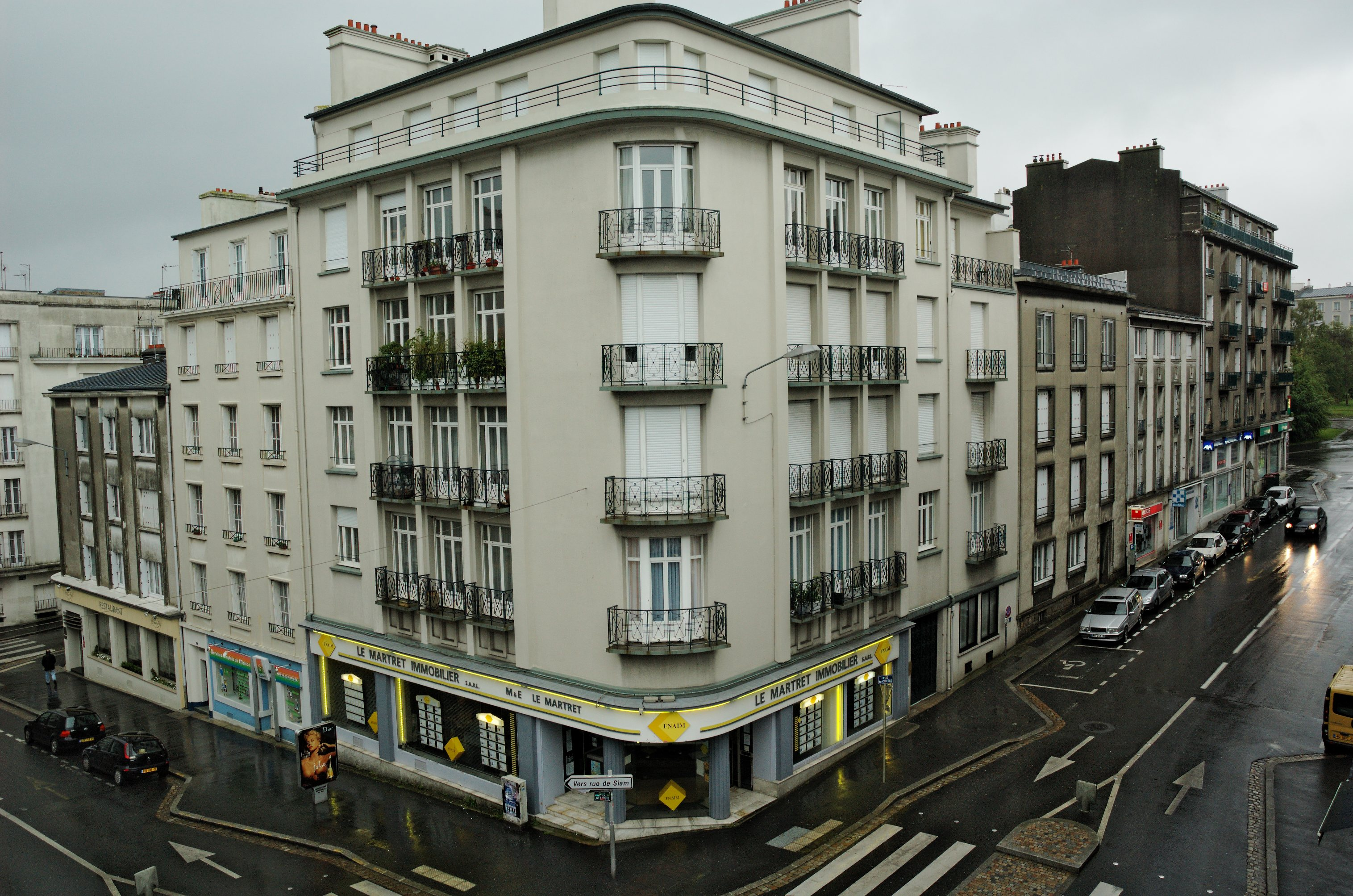 Residential/retail building at the corner of Rue de Lyon and Rue de Château, Brest.